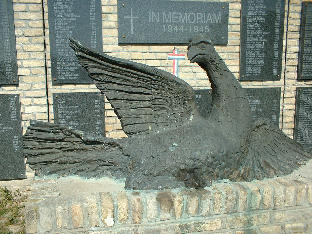 1994 memorial in Subotica cemetery for the memory of the victims of the 1944-1945 killings in Bačka.